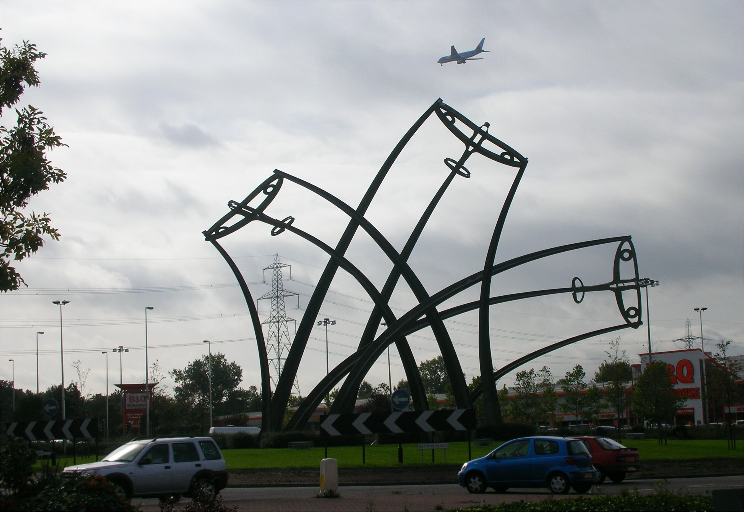 Sentinel is a 16m high sculpture by Tim Tolkien, installed upon a traffic island at the intersection of the main Chester Road and the entrance to the Castle Vale estate in Birmingham, England. Celebrating the Supermarine Spitfire aircraft made in the adjacent factory.